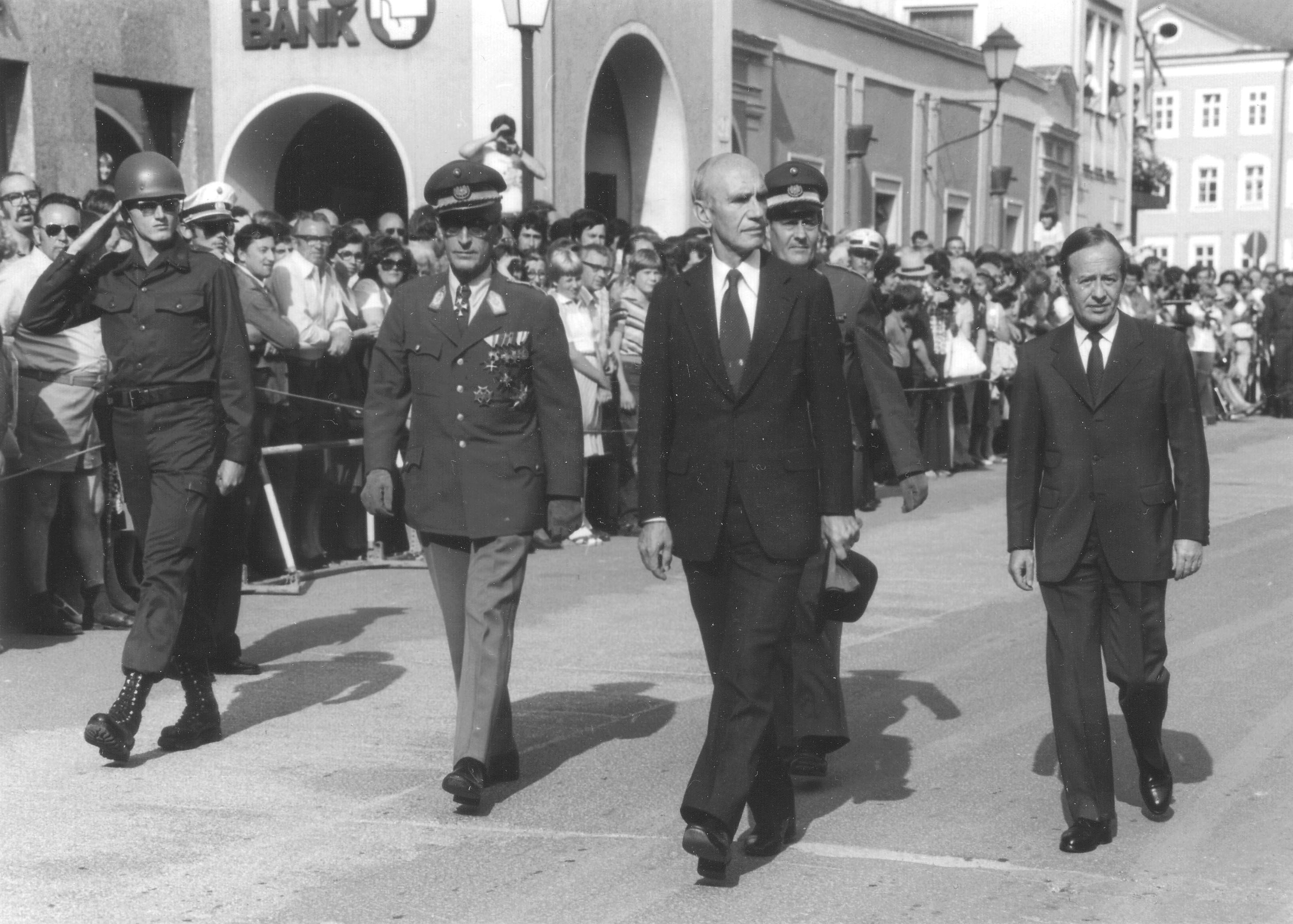 Austrian federal president Rudolf Kirchschläger inspecting a 'company of honour' of Austria's army, when arriving on occasion of the opening of 'Salzburger Festspiele", probably in 1979, [+/- one year, in worst case]. Location: Salzburg, Residenzplatz. From left: Unknown officer; General Karl Wohlgemuth, commander of Korps_II. (Salzburg); Mr. president; (unknown officer in background, probably the president's adjutant); Salzburg's at-that-time governor Wilfried Haslauer senior. Nikon 35mm lens, Kodak Tri-X.